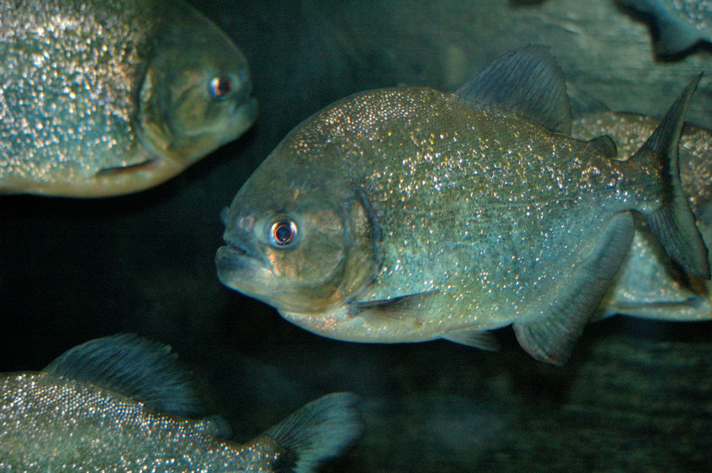 Pygocentrus nattereri